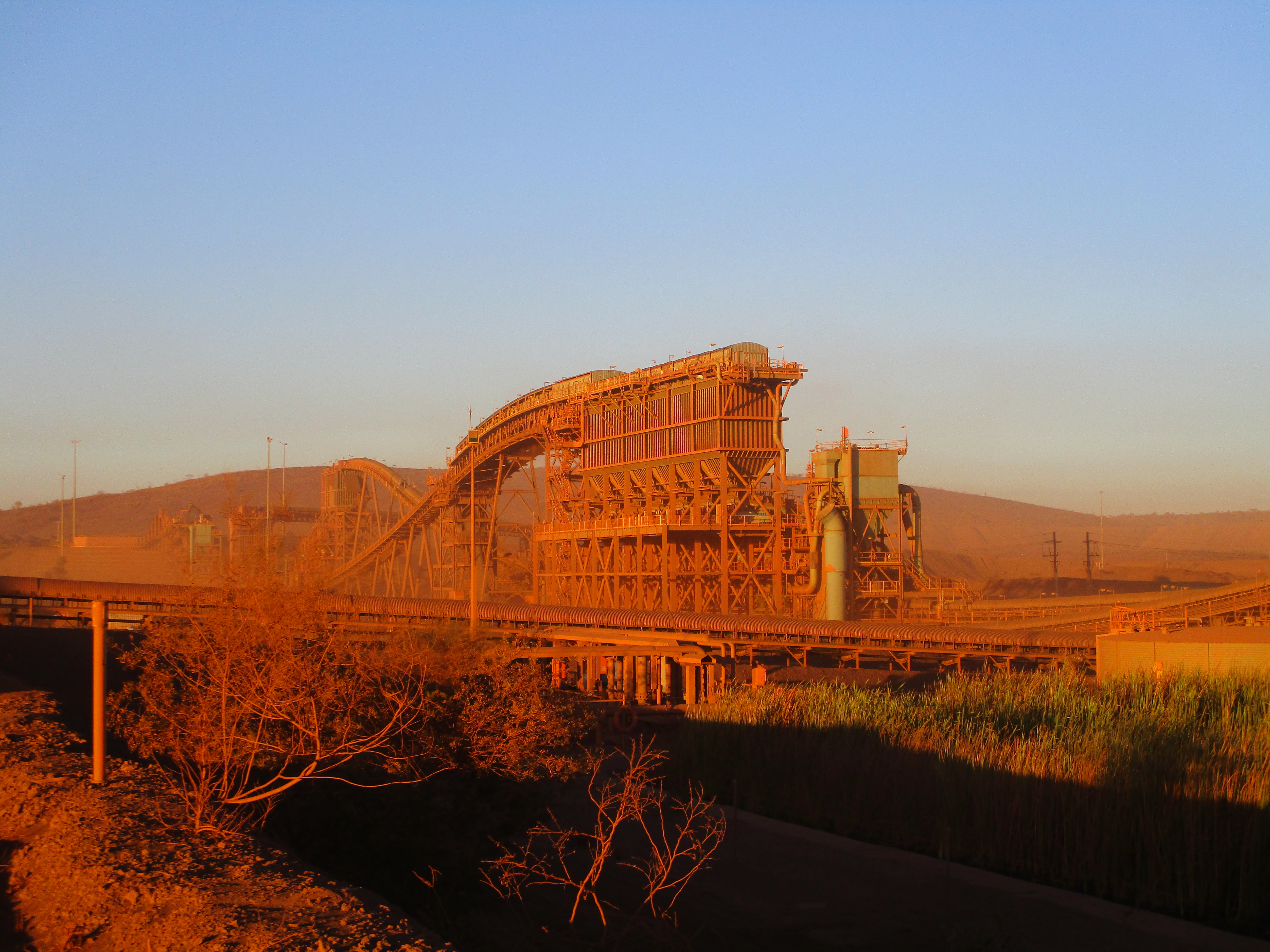 Process plant at the Brockman 4 iron ore mine: The screen house